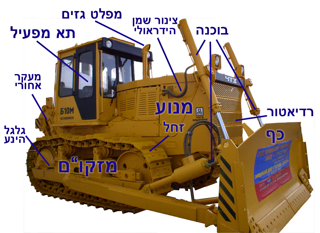 Based on File:ChTZ B10M-3.jpg and file:Bulldozer-parts03.jpg